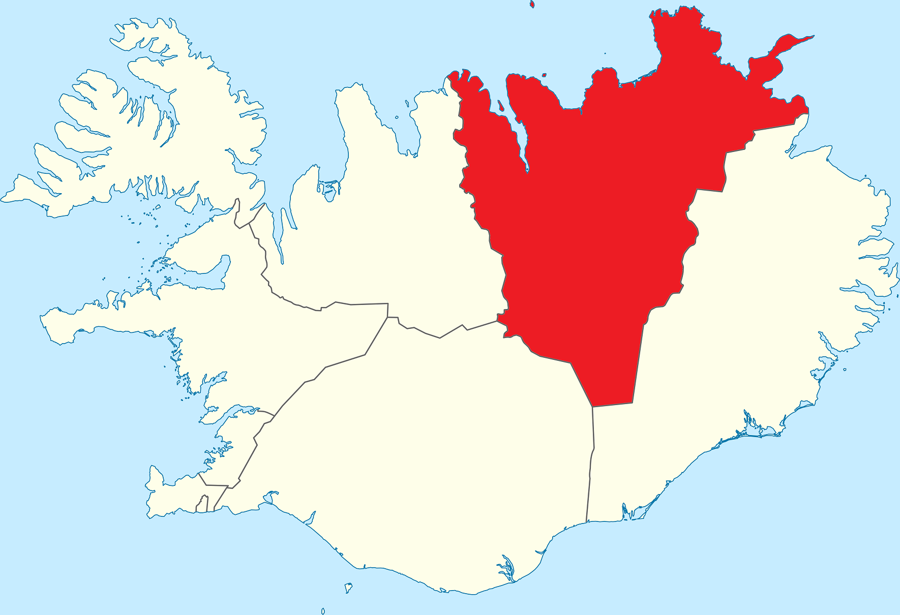 Region highlighted within Iceland as a whole.